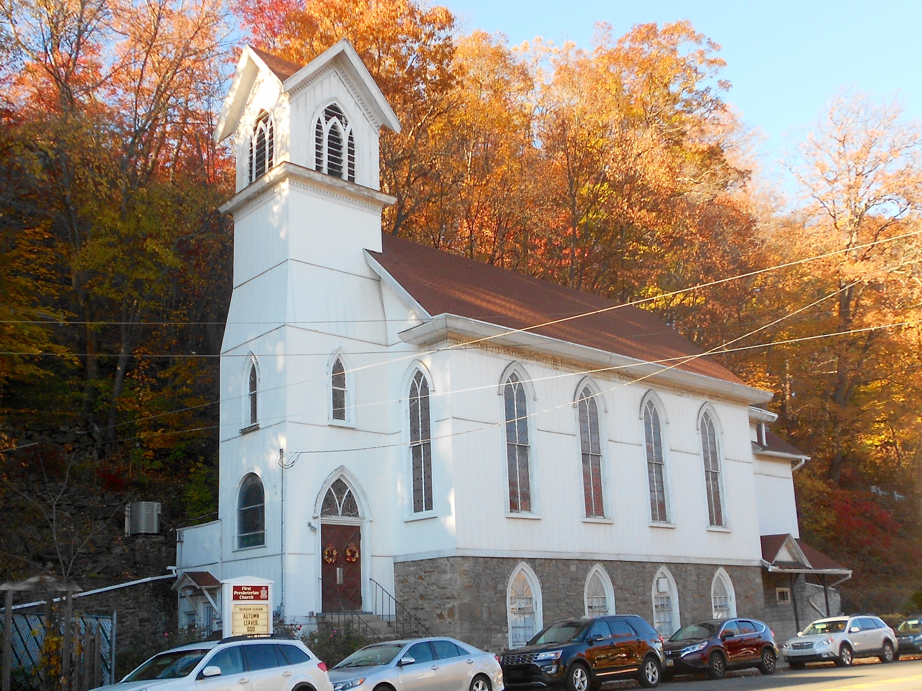 Presbyterian Church in Shickshinny, Luzerne County, Pennsylvania. Sign in front says "First Presbyterian Church; Worship 10:00 AM; Autumn Leaves, God doesn't, Our 152nd year" See old postcard of the same church at File:Shickshinny PA Presby PHS570.jpg